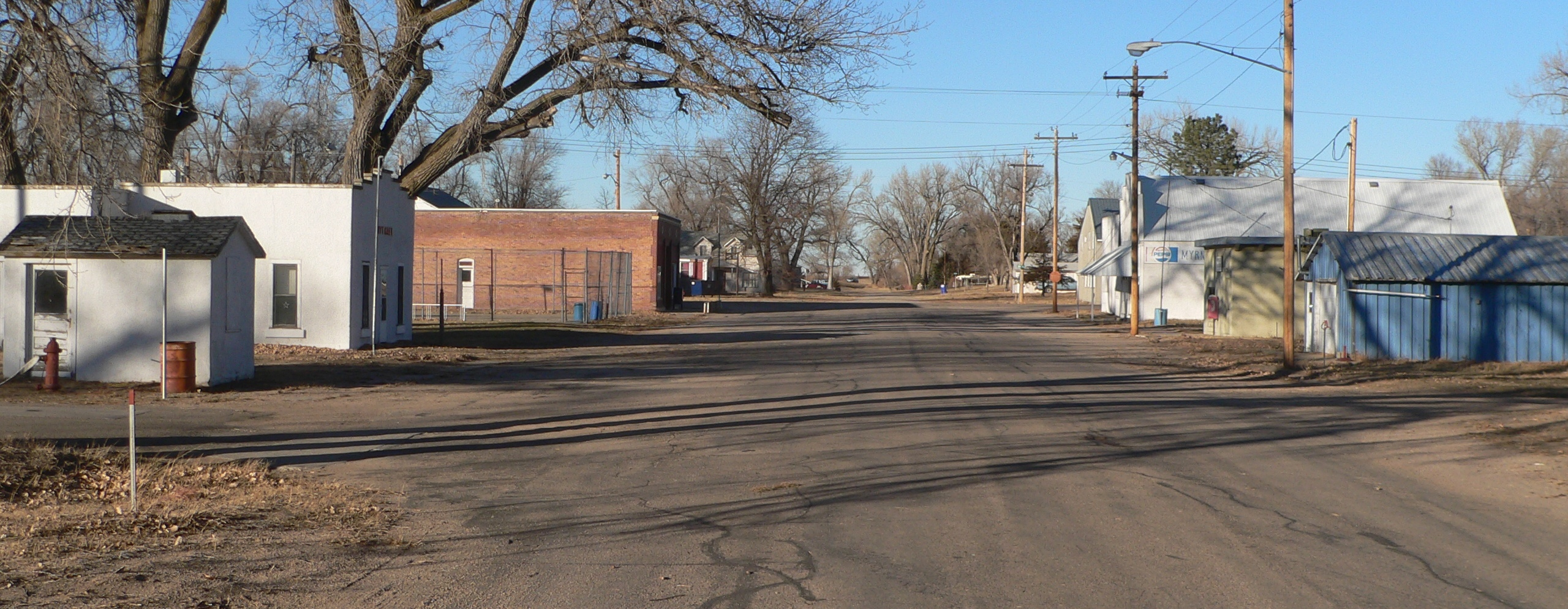 Downtown Newport, Nebraska: 2nd Street. Camera is facing north.